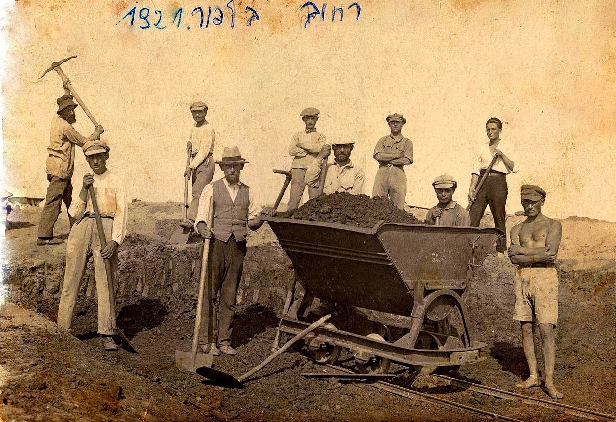 Immigration to Israel